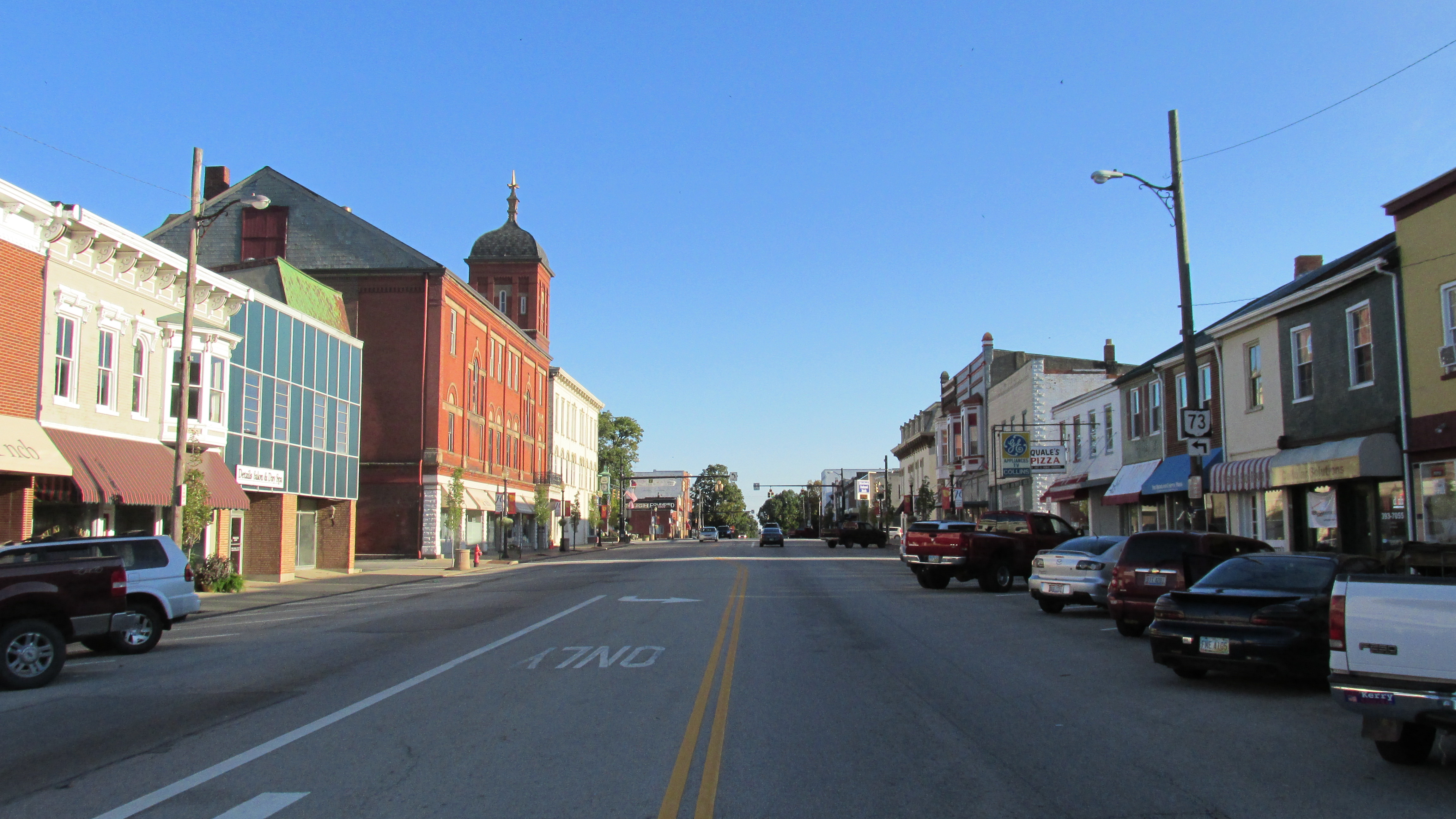 Looking north on South High Street in Hillsboro, Ohio.